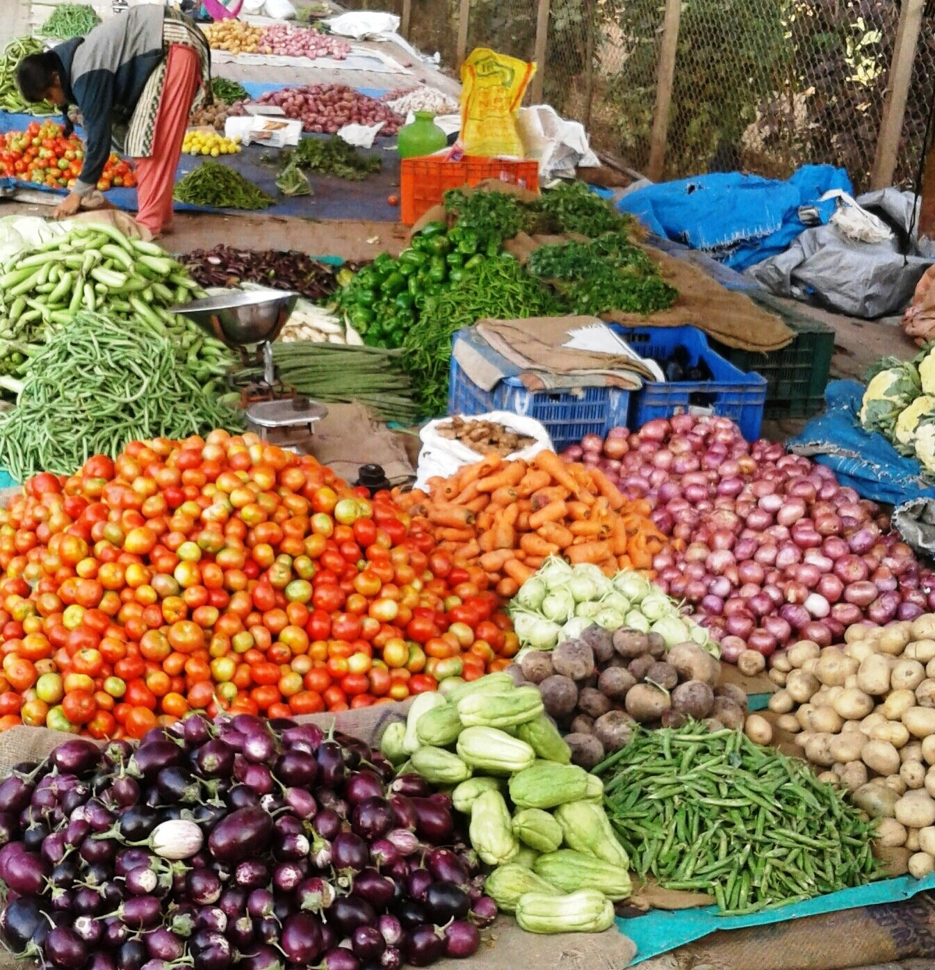 The Elephant Gate is a narrow tunnel through which traffic flows smoothly. This location has many seats suitable for an evening picnic. There is a majestic mosque and many vendors selling fast food items. Locationː Srirangapatna, Near Mysore, Karnataka state, India.